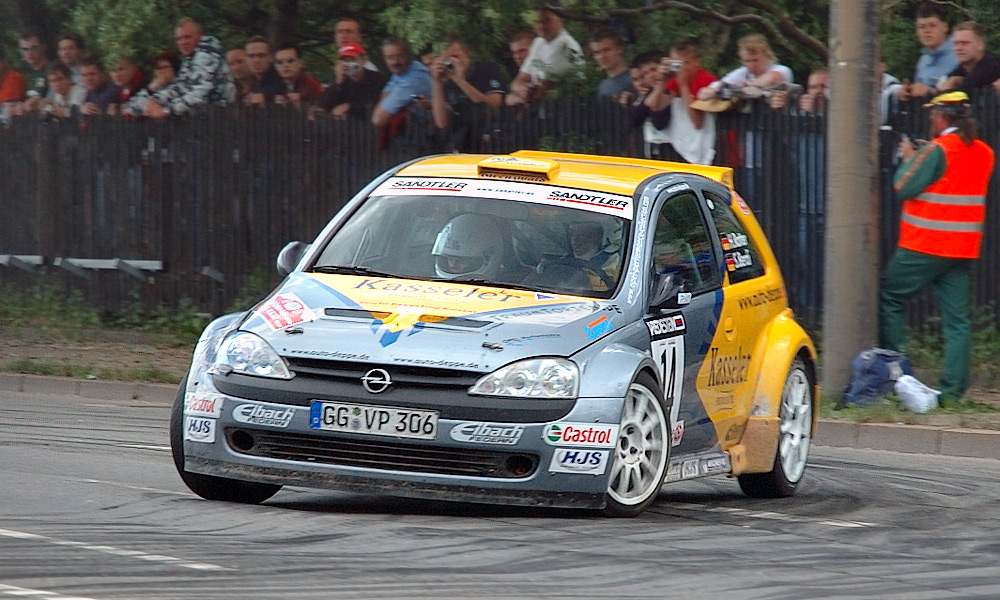 This image shows an Opel Corsa Super 1600. This photo has been taken during the Saxony rally racing 2005 in Zwickau (Germany).